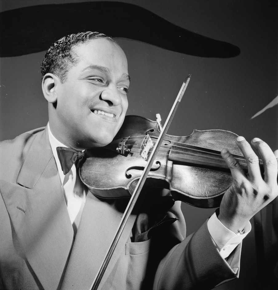 Eddie South (Louisiana, Missouri, November 27, 1904 - April 25, 1962[1]) was an American jazz violinist. Gottlieb, William P., 1917-, photographer. [Portrait of Eddie South, Café Society (Uptown), New York, N.Y., ca. Dec. 1946] 1 negative : b&w ; 2 1/4 x 2 1/4 in. Caption from Down Beat: Violin: Eddie South. Eddie made his return to club engagements when he opened at Café Society Uptown a month or so ago. He had been spending most the preceding years as a single on air shows. These days, jazz is seldom sawed by the famed South fiddle bow. Mostly it's congas, rhumbas, pops and the other things you'd expect from a "society" combo. But he sneaks in "Honeysuckle Rose" often enough to let you know he hasn't forgotten. Notes: Gottlieb Collection Assignment No. 292 Reference print available in Music Division, Library of Congress. Purchase William P. Gottlieb Forms part of: William P. Gottlieb Collection (Library of Congress). In: The Record Changer, v. 5, no. 10 (Dec. 46, 1946), p. 10. Subjects: South, Eddie Jazz musicians--1940-1950. Violinists--1940-1950. Café Society (Uptown) Format: Portrait photographs--1940-1950. Film negatives--1940-1950. Rights Info: Mr. Gottlieb has dedicated these works to the public domain, but rights of privacy and publicity may apply. Repository: (negative) Library of Congress, Prints & Photographs Division, Washington D.C. 20540 USA, (reference print) Library of Congress, Music Division, Washington D.C. 20540 USA, Part Of: William P. Gottlieb Collection (DLC) 99-401005 General information about the Gottlieb Collection is available at Persistent URL: Call Number: LC-GLB23- 0800